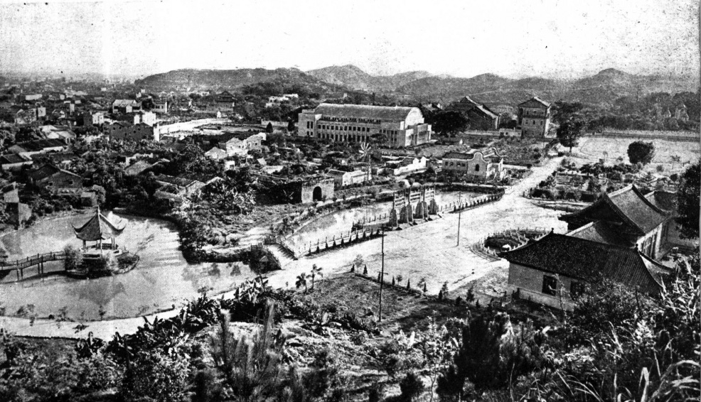 From ruins to garden.